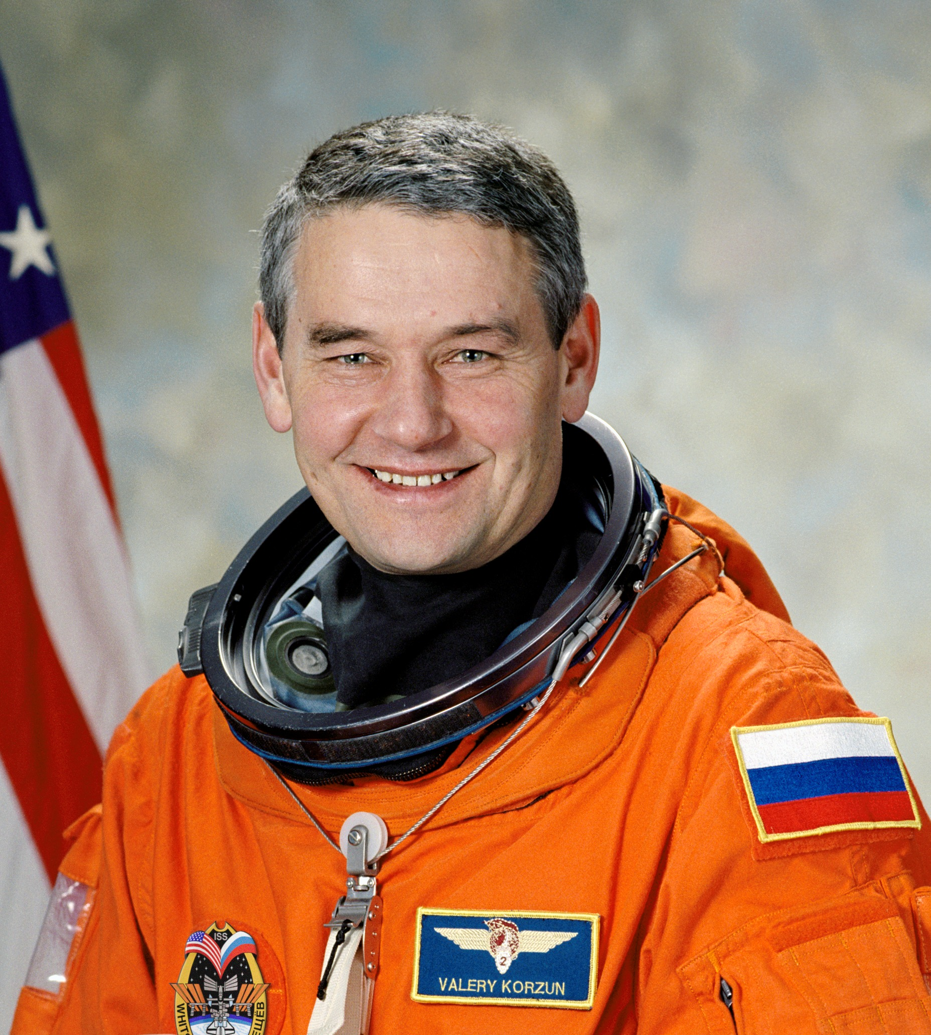 NASA pic of Valeri Korzun, from